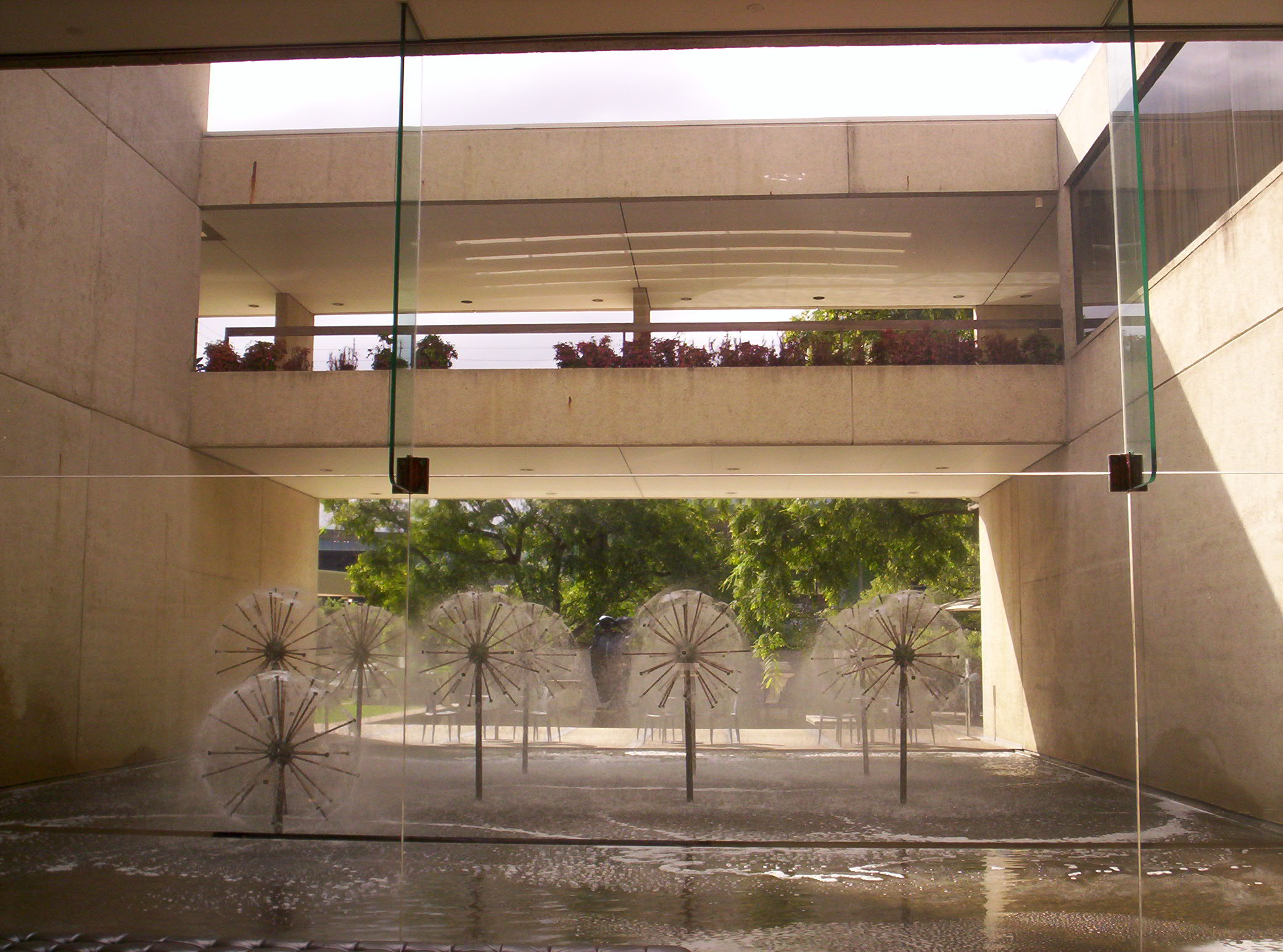 Fountains at the Water mall at the Queensland Art Gallery, in Brisbane, Queensland, Australia